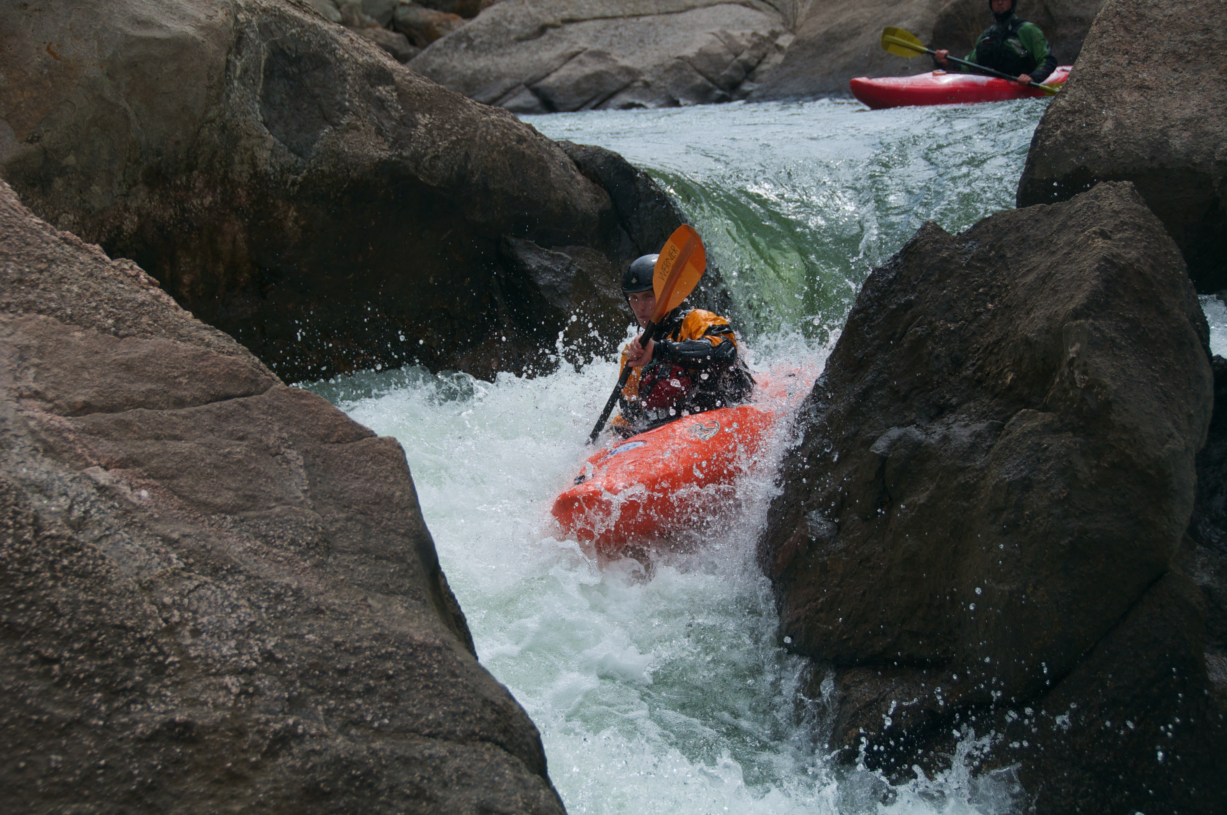 Kayaking the first rapid (class V) of Eleven Mile Canyon, a section of the South Platte River, Colorado, USA, at about 206 cfs (David on a trip of the Colorado College Kayak Club)